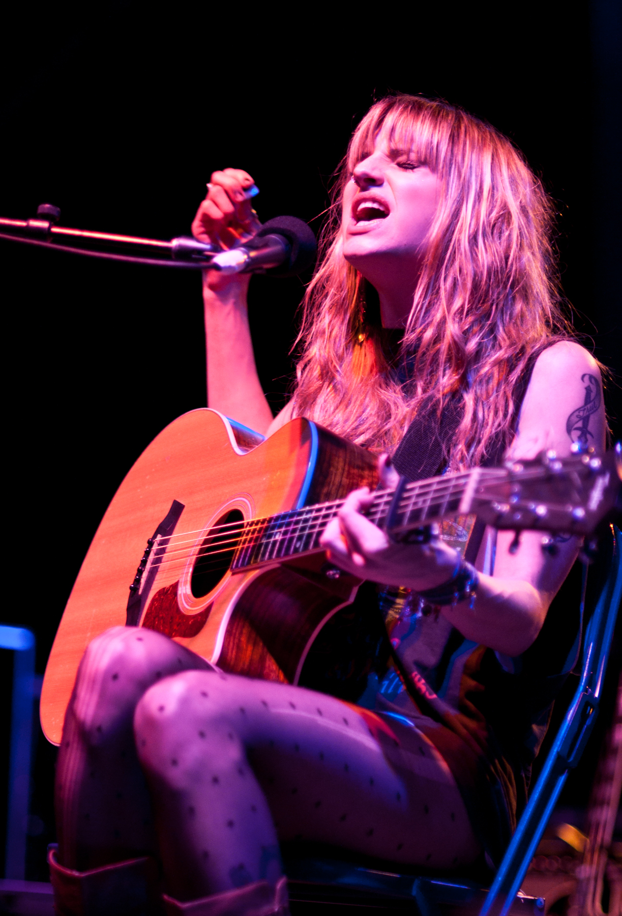 Juliet Simms playing at UCSD